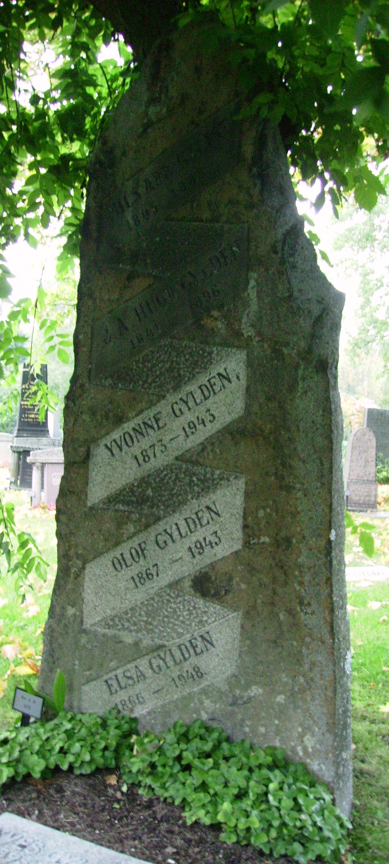 Picture of Nils Gyldén's grave at Norra begravningsplatsen in Solna